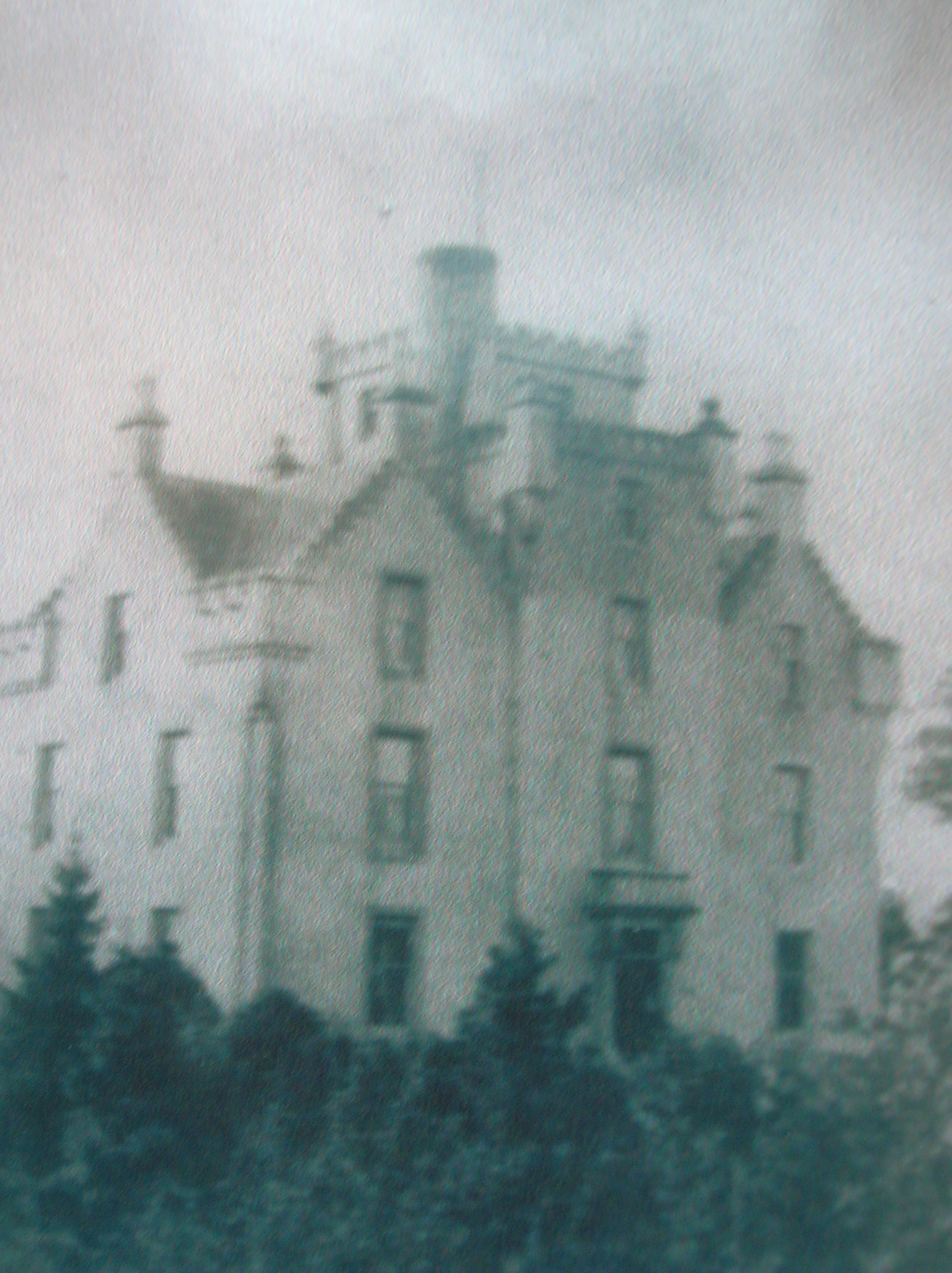 The old Nettlehurst House, Barrmill, North Ayrshire, Scotland.